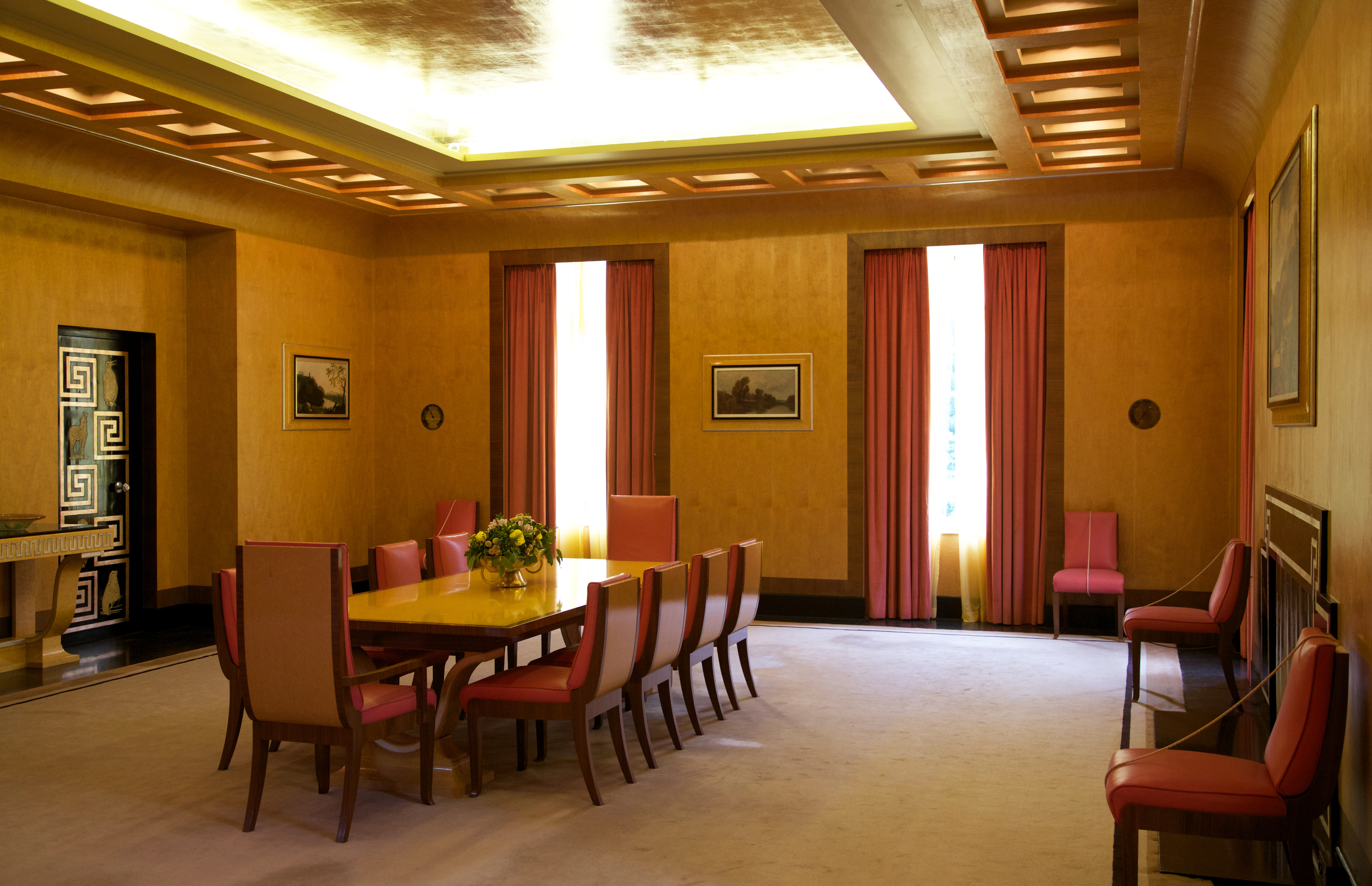 Eltham Court (eltham Palace) Wikidata has entry Q17551054 with data related to this item.